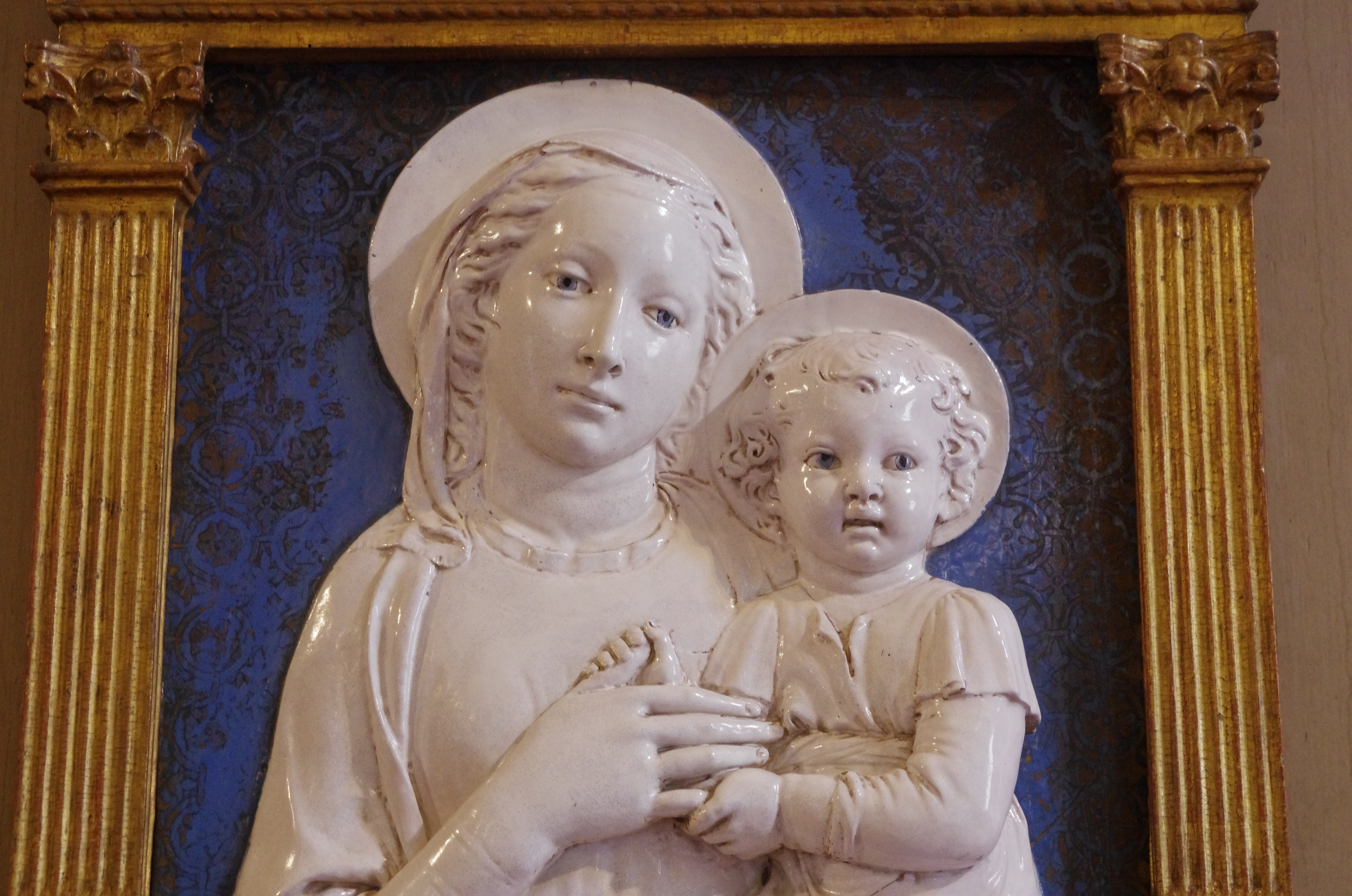 03 2015 Madonna di Santa Maria Nuova-Glazed terracotta in Florence-Luca della Robbia-National Museum of the Bargello (Florence) Photo Paolo Villa FOTO9230